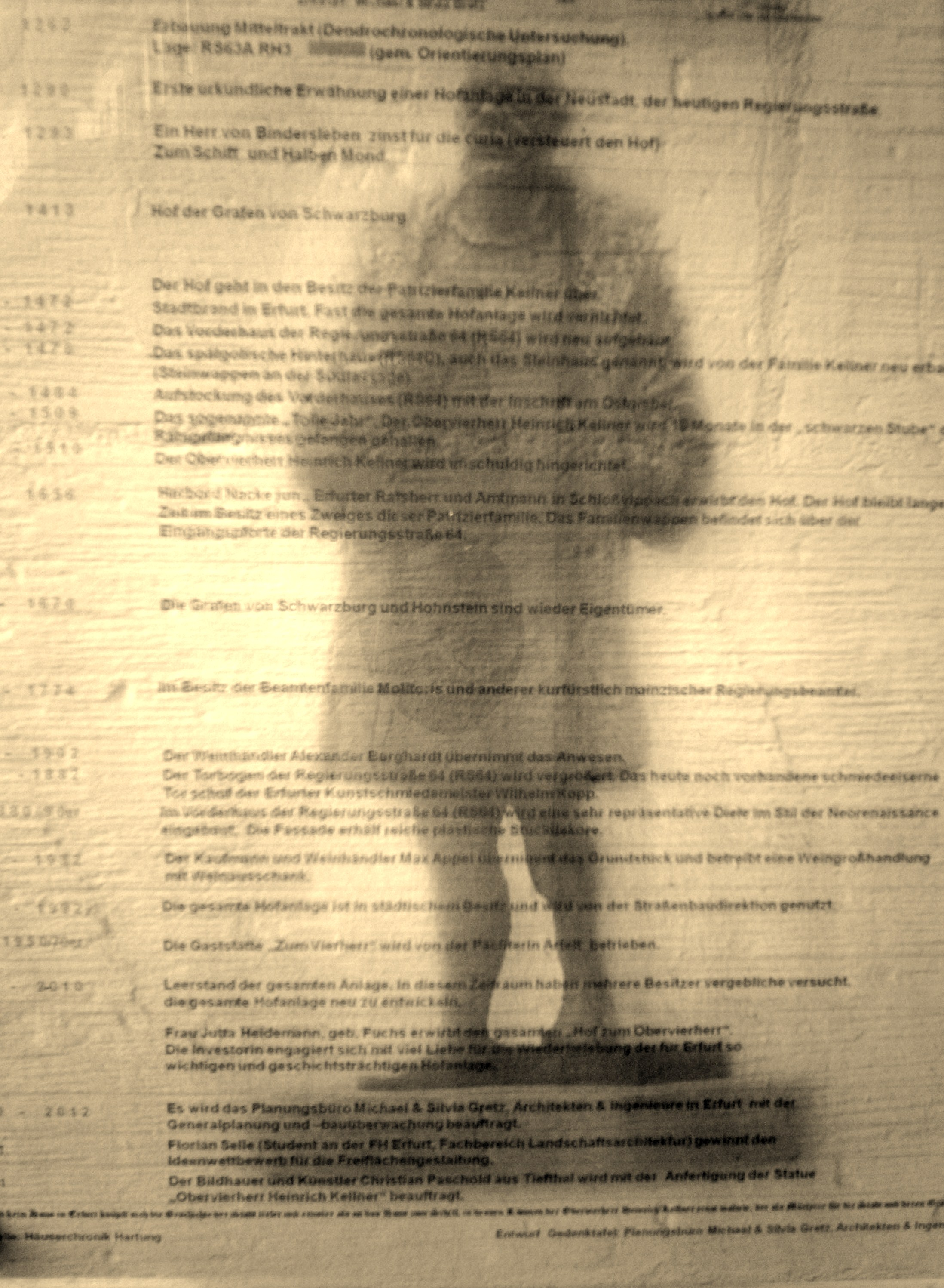 Monument of Heinrich Kellner, Regierungsstrasse nr 63, Erfurt (statue as background of information tablet)